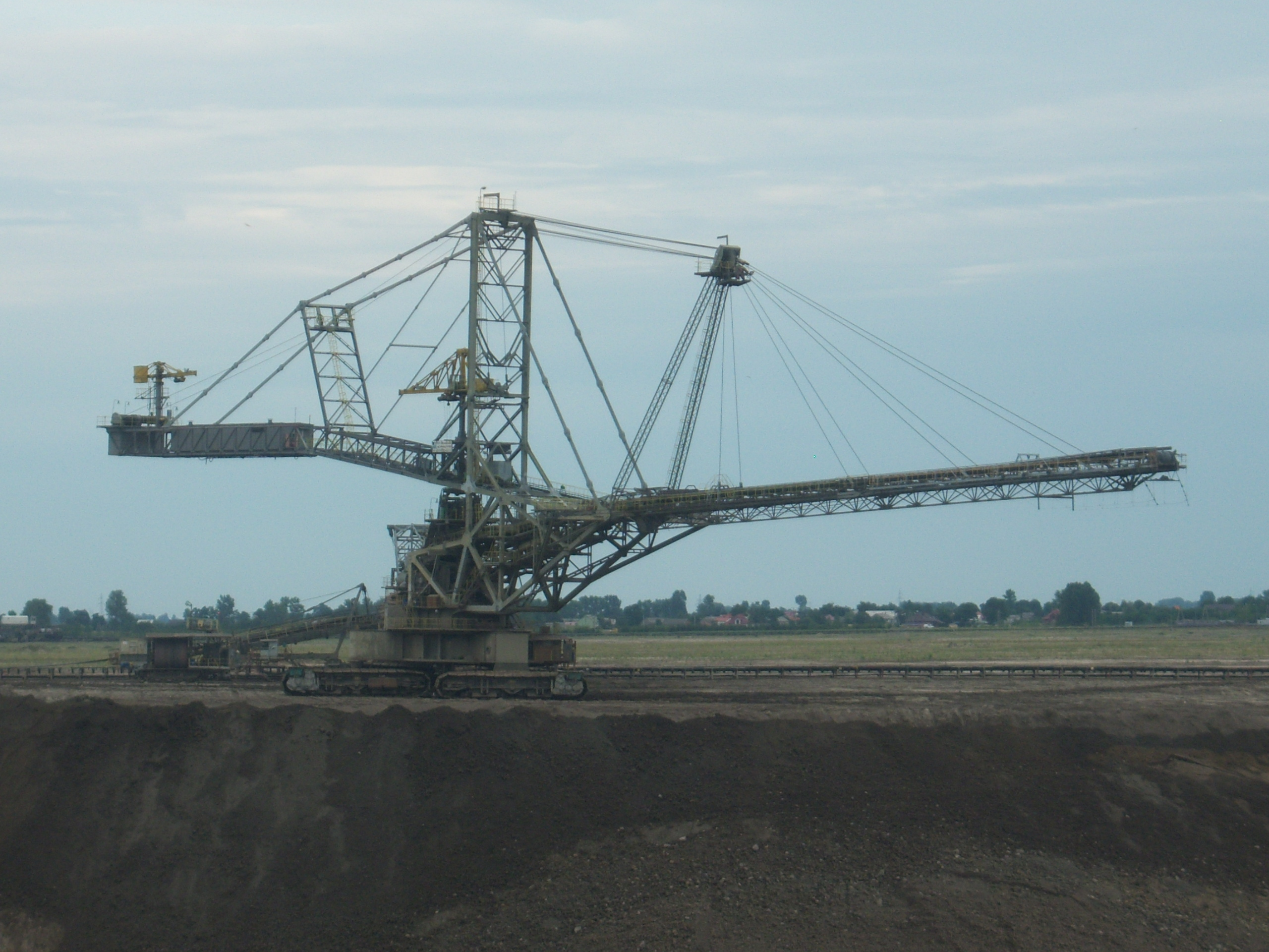 Reclaimer A2RsB 15400 in open-pit lignite mine "Jóźwin II" KWB Konin